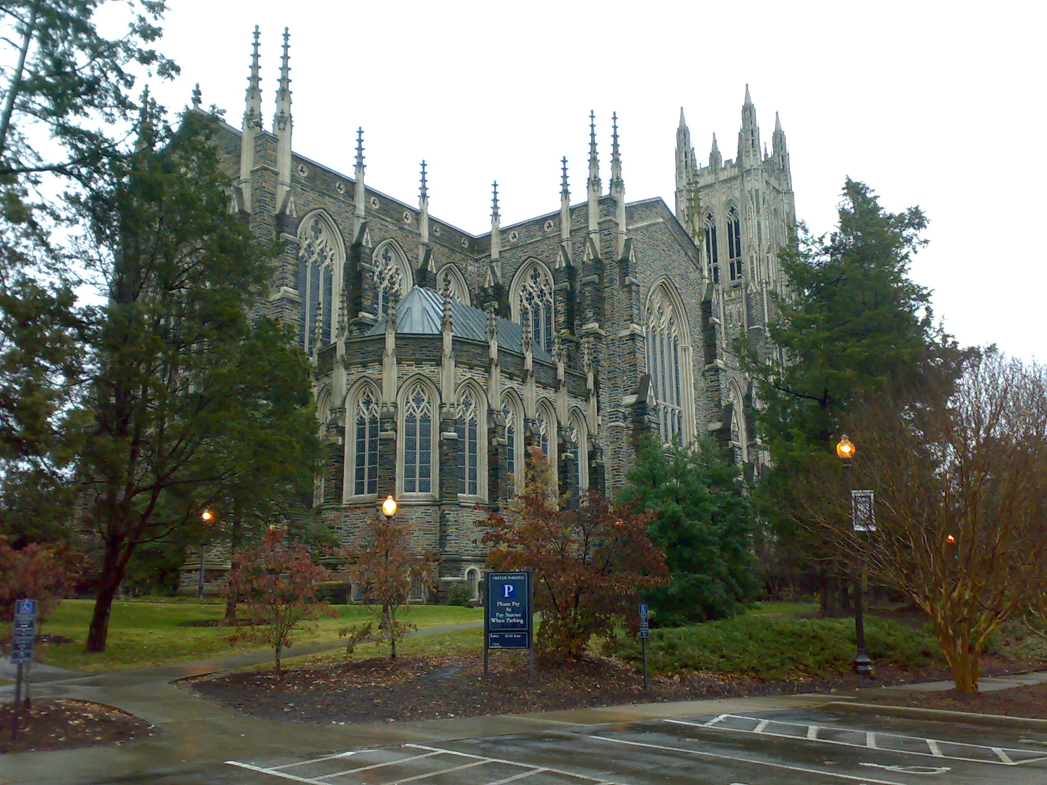 Duke Chapel, at Duke University western campus